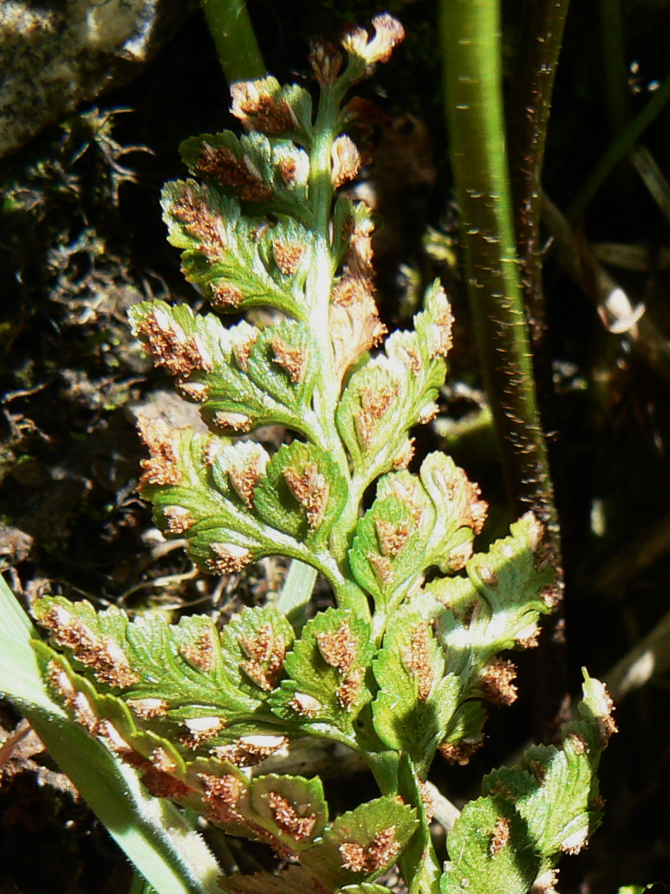 Asplenium billotii on granite drystone wall, Cap de la Hague, Manche, France